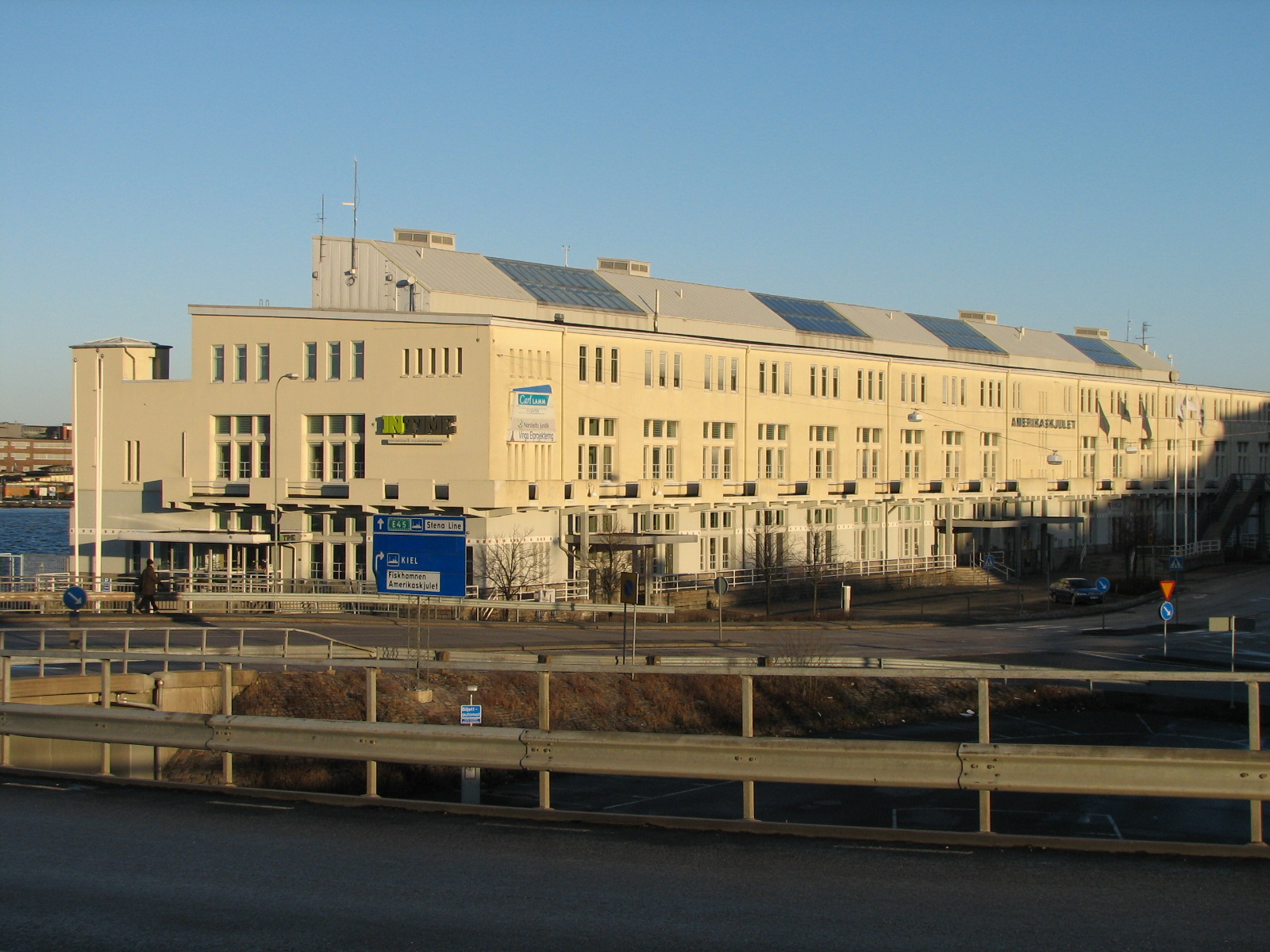 The terminal building of the former Swedish America Line, known as Amerikaskjulet (the America shed).